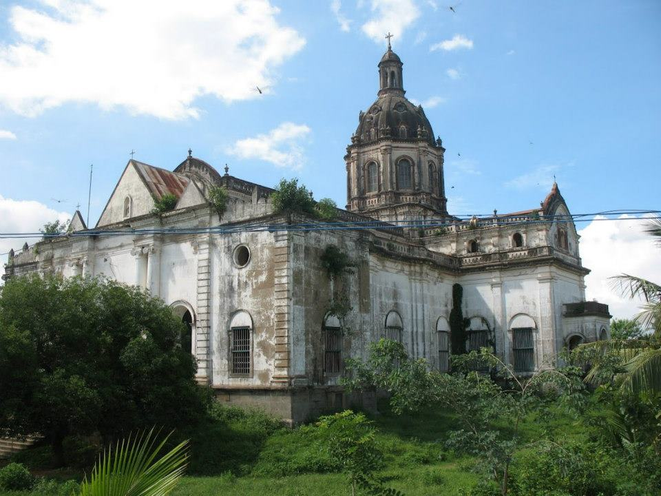 St, Joseph church perumpannaiyur